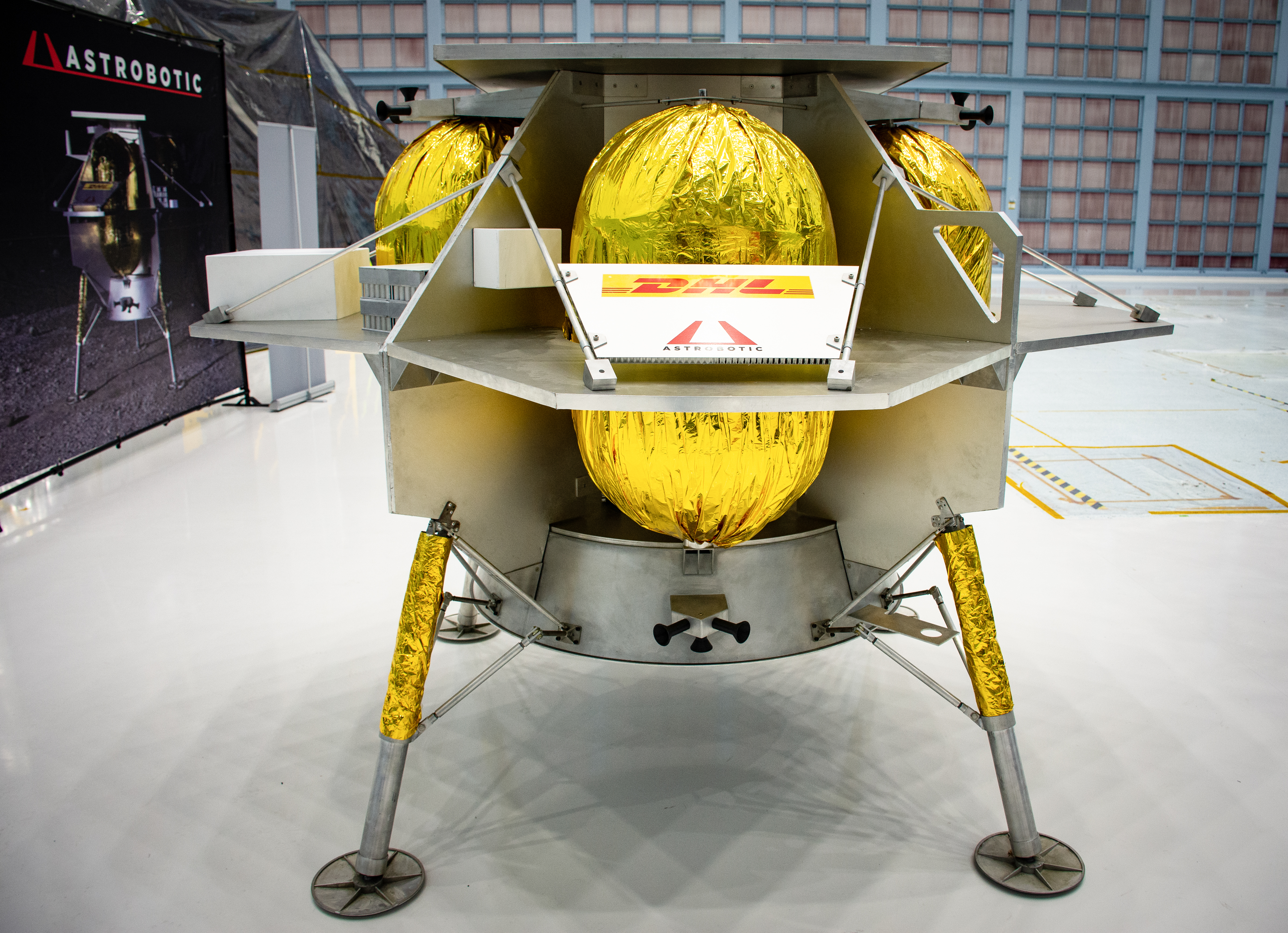 NASA has selected three commercial Moon landing service providers that will deliver science and technology payloads under Commercial Lunar Payload Services (CLPS) as part of the Artemis program. Each commercial lander will carry NASA-provided payloads that will conduct science investigations and demonstrate advanced technologies on the lunar surface, paving the way for NASA astronauts to land on the lunar surface by 2024. The selections are: Astrobotic of Pittsburgh has been awarded $79.5 million and has proposed to fly as many as 14 payloads to Lacus Mortis, a large crater on the near side of the Moon, by July 2021. Intuitive Machines of Houston has been awarded $77 million. The company has proposed to fly as many as five payloads to Oceanus Procellarum, a scientifically intriguing dark spot on the Moon, by July 2021. Orbit Beyond of Edison, New Jersey, has been awarded $97 million and has proposed to fly as many as four payloads to Mare Imbrium, a lava plain in one of the Moon’s craters, by September 2020. This commercial lander from Astrobotic of Pittsburgh will carry NASA-provided science and technology payloads to the lunar surface, paving the way for NASA astronauts to land on the Moon by 2024. All three of the lander models were on display for the announcement of the companies selected to provide the first lunar landers for the Artemis program, on Friday, May 31, 2019, at NASA's Goddard Space Flight Center in Greenbelt, Md. Read more: Credit: NASA/Goddard/Rebecca Roth